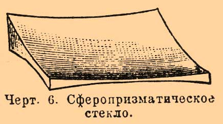 Illustration from Brockhaus and Efron Encyclopedic Dictionary (1890—1907)